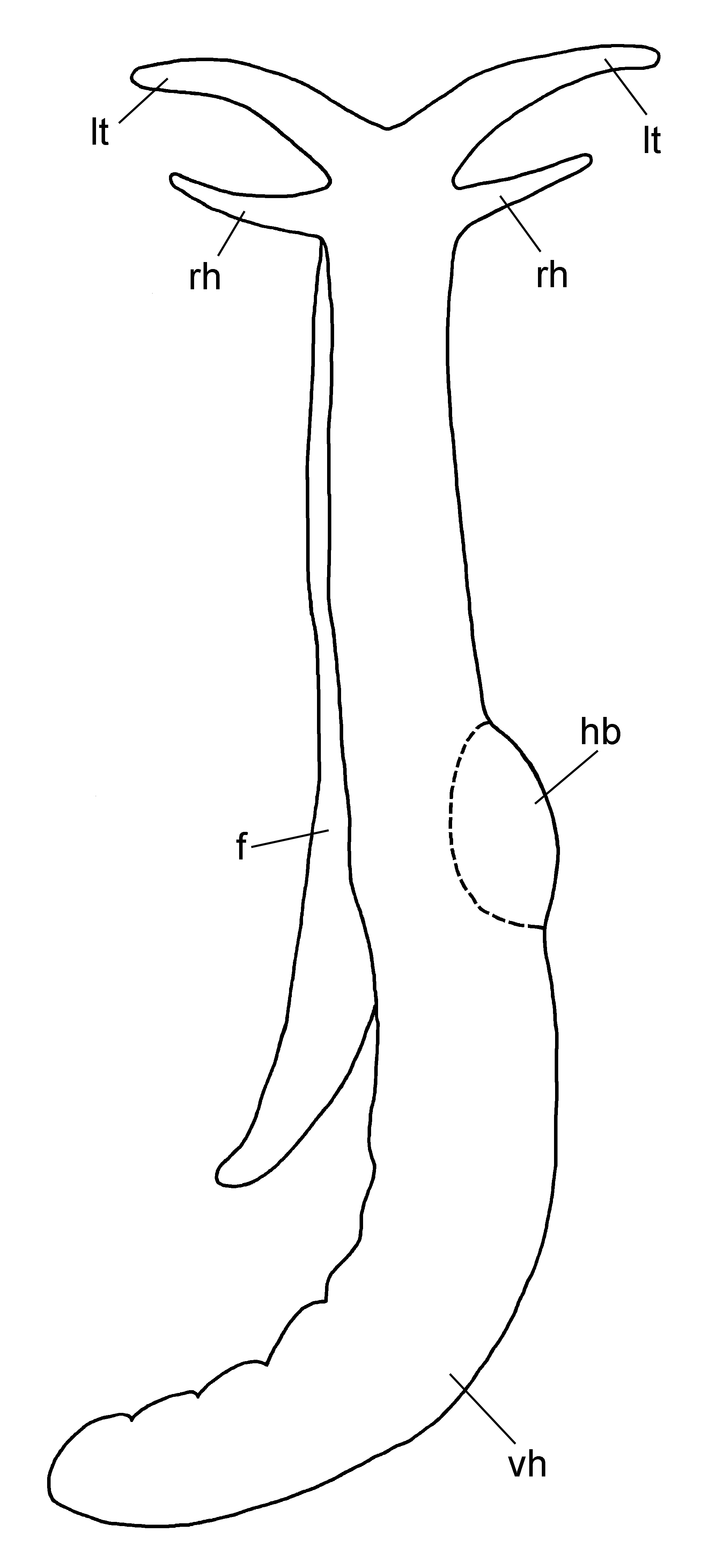 Schematic drawing of dorsal view of Pseudunela cornuta. Abbreviations: f, foot; hb, heart bulb; lt, labial tentacle; rh, rhinophore; vh, visceral hump.